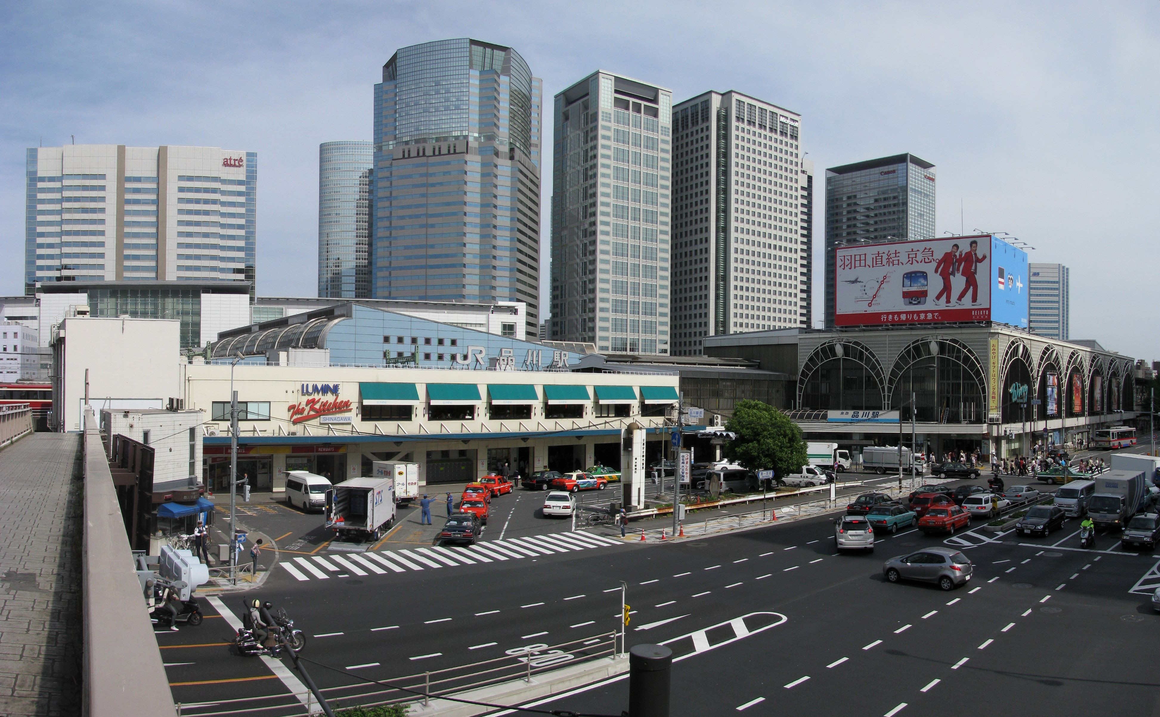 Exterior view of Shinagawa Station in Minato Ward, Tokyo, Japan